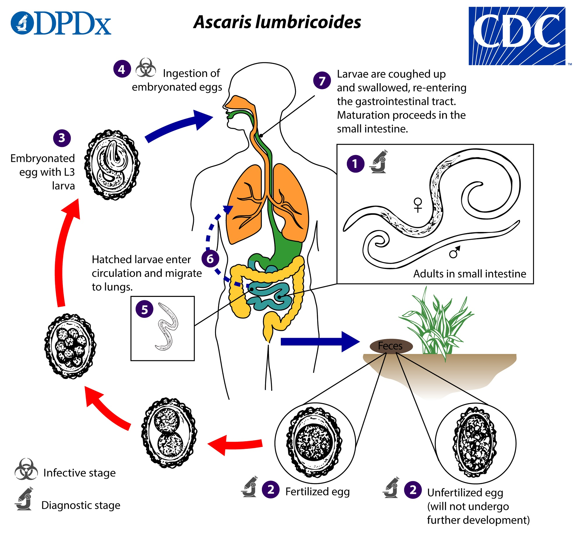 This is an illustration of the life cycle of Ascaris lumbricoides, the causal agent of ascariasis. Adult worms image live in the lumen of the small intestine. A female may produce approximately 200,000 eggs per day, which are passed with the feces image . Unfertilized eggs may be ingested but are not infective. Larvae develop to infectivity within fertile eggs after 18 days to several weeks image , depending on the environmental conditions (optimum: moist, warm, shaded soil). After infective eggs are swallowed image , the larvae hatch image , invade the intestinal mucosa, and are carried via the portal, then systemic circulation to the lungs image . The larvae mature further in the lungs (10 to 14 days), penetrate the alveolar walls, ascend the bronchial tree to the throat, and are swallowed image . Upon reaching the small intestine, they develop into adult worms. Between 2 and 3 months are required from ingestion of the infective eggs to oviposition by the adult female. Adult worms can live 1 to 2 years.